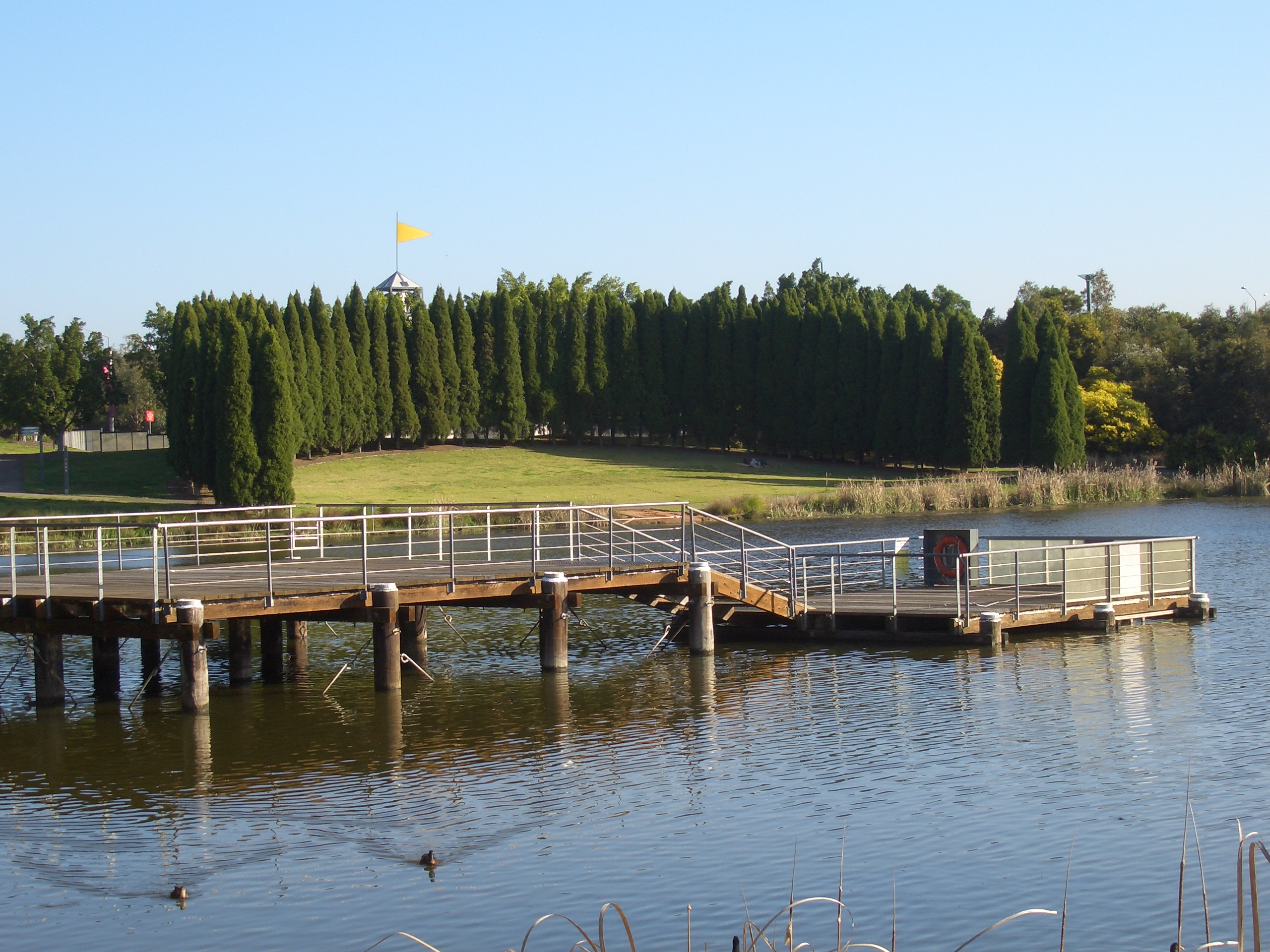 Bicentennial Park, Homebush Bay